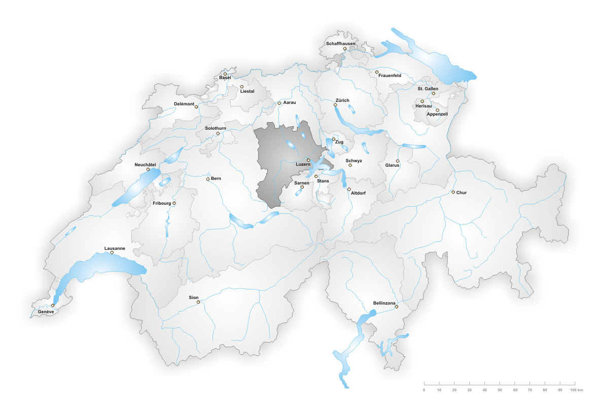 Summary